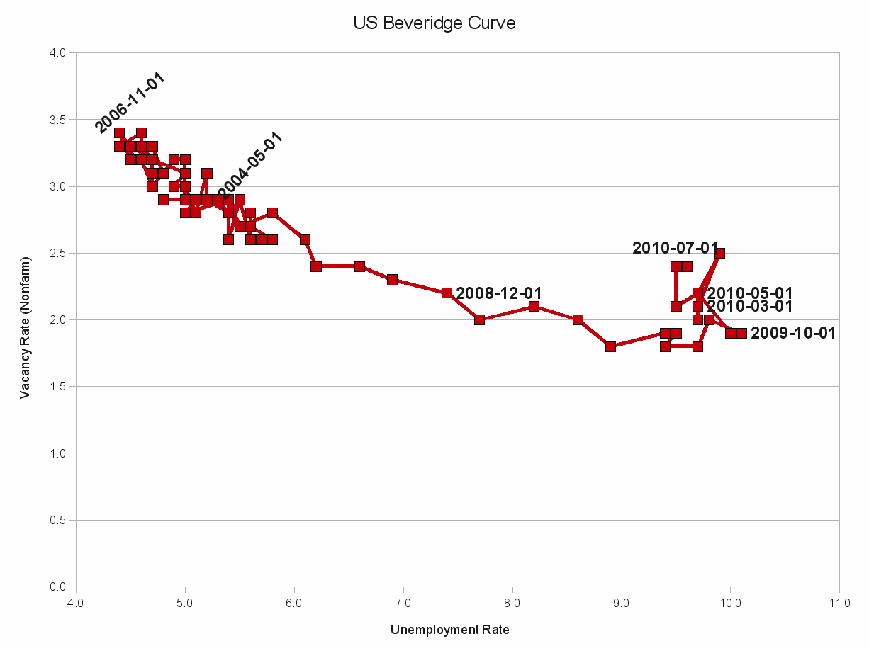 Beveridge curve of US economic data from 2004 through fall 2010. Data is from St. Louis Fed's FRED. Seasonally adjusted total nonfarm vacancy rate (JTSJOR) and unemployment rate (UNRATE). Made with Calc.